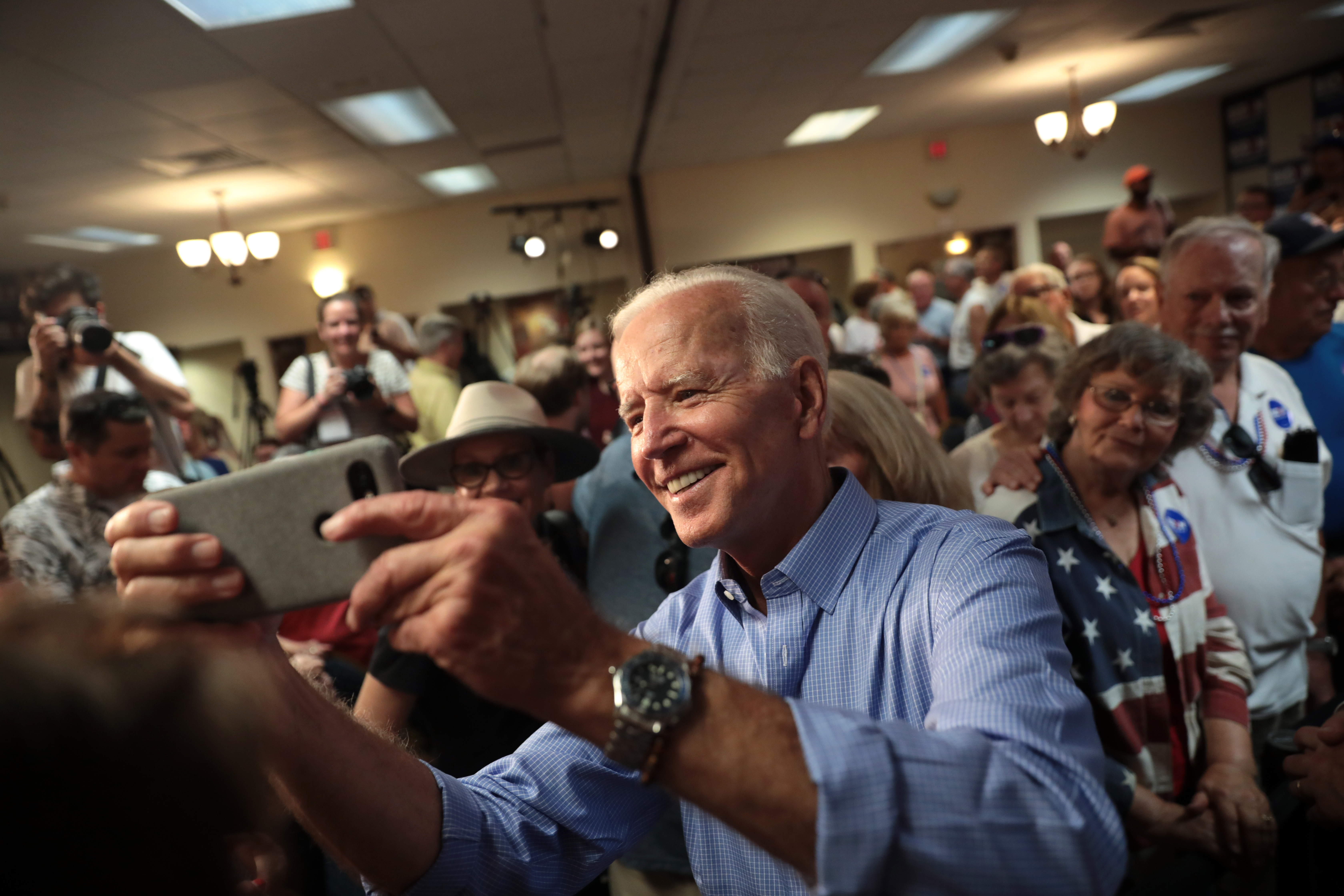 Former Vice President of the United States Joe Biden speaking with supporters at a community event at the Best Western Regency Inn in Marshalltown, Iowa.